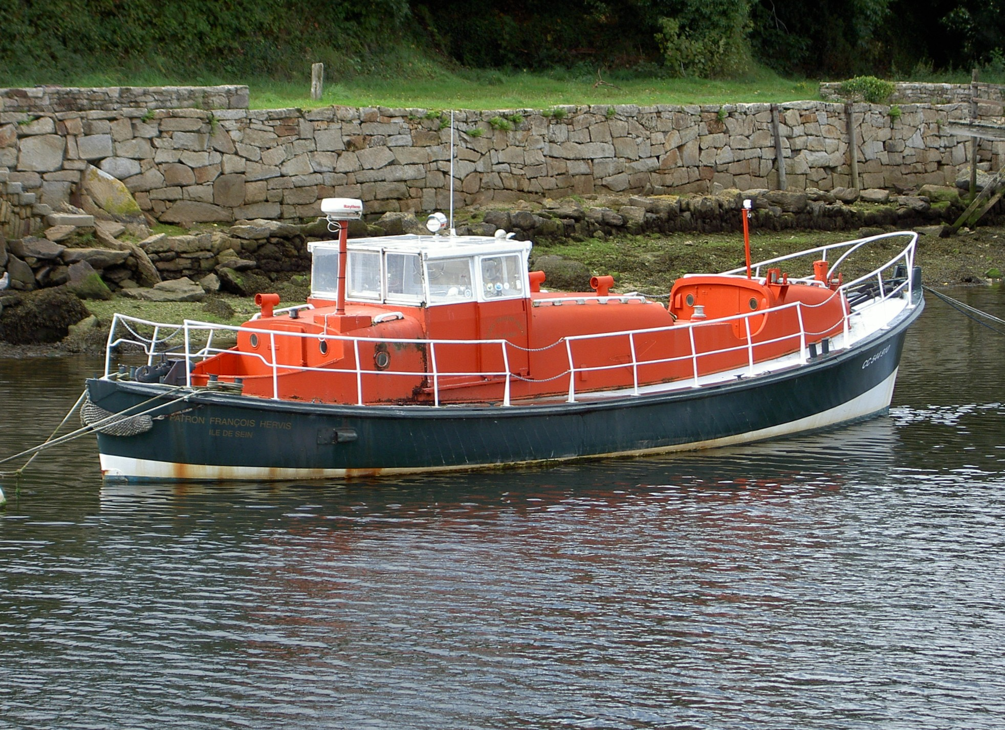 'Patron François Hervis', old lifeboat of the Île de Sein, France.